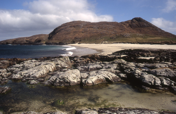 Cliad bay and Ben Cliad